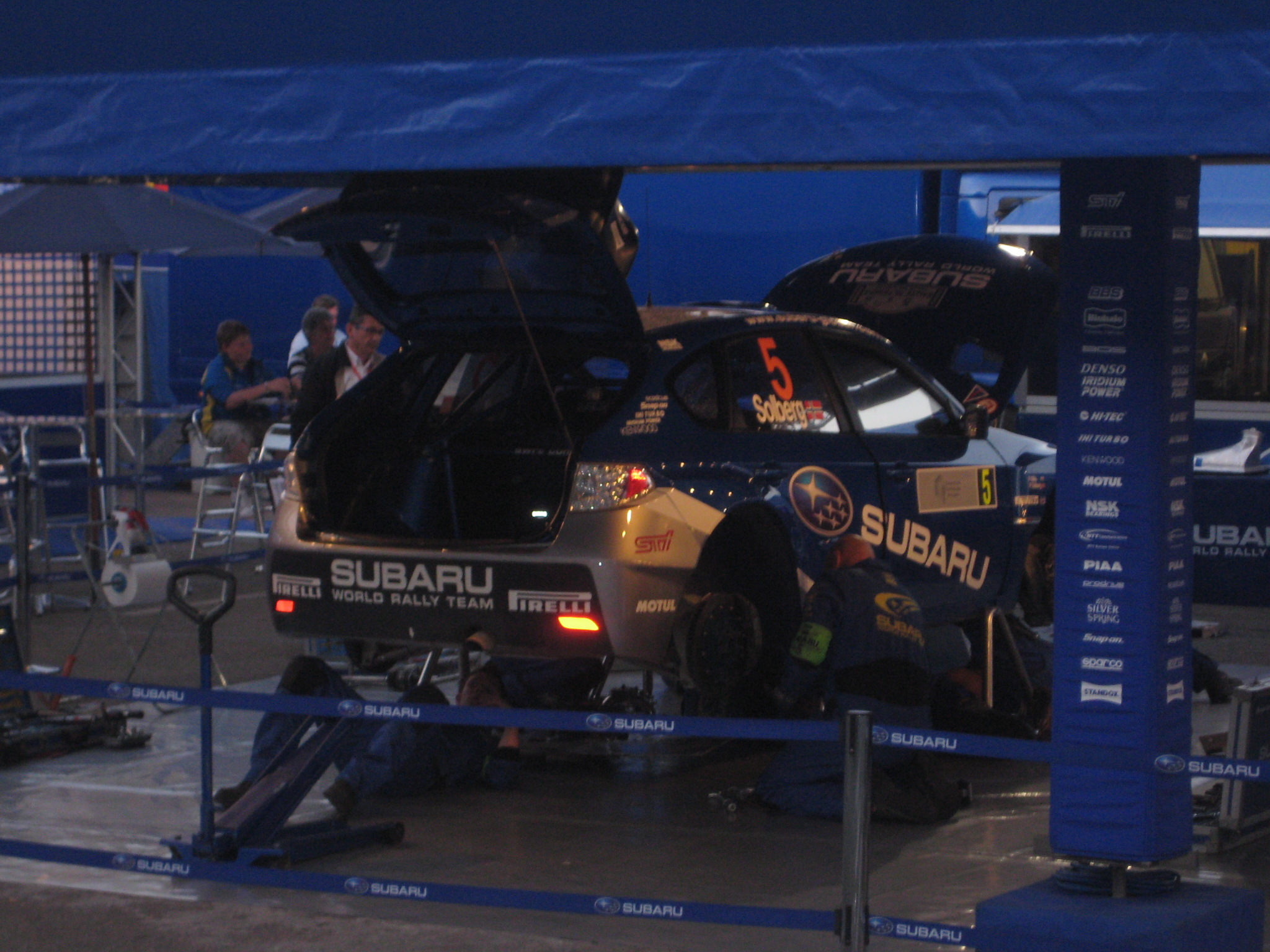 2008 Rallye de France, Day 1-Service B, Petter Solberg - Subaru Impreza WRC